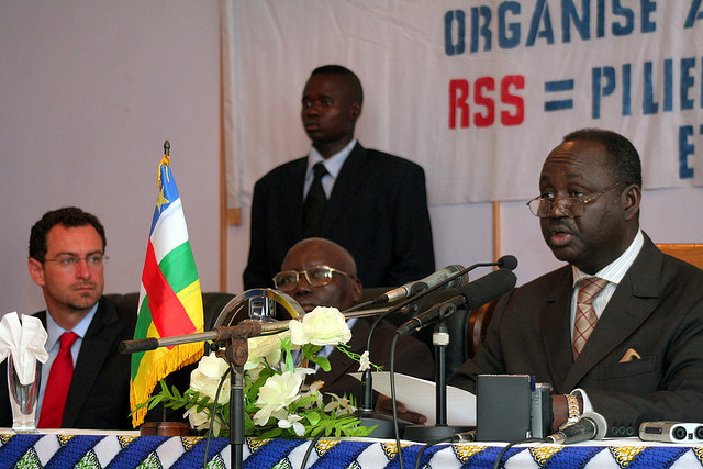 The Security Sector Reform seminar was held in Bangui from 14th to 17th April. During these four days all major actors of the security sector discussed the country's situation and suggested a series of reforms to improve security in the Central African Republic. In a final speech, the President and the Government of the CAR committed to follow the recommendations of the seminar and received the support of bilateral and international partners. Credits: Brice Blondel for HDPTCAR